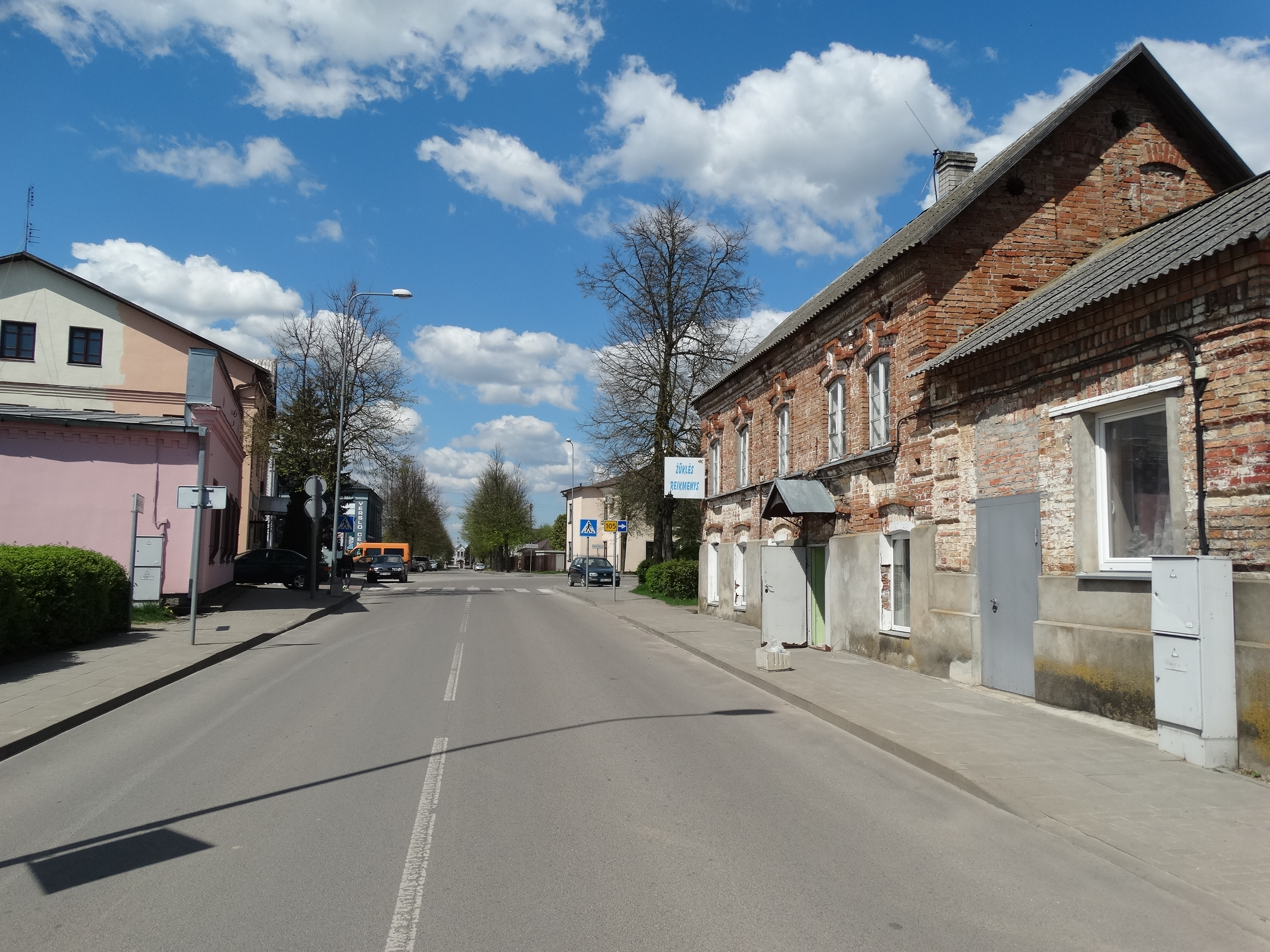 Eišiškės, Šalčininkai District, Lithuania